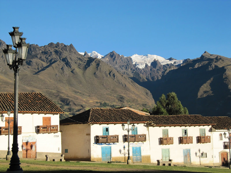 Chacas typical house with balconies, with fine carved doors, tile roof, double water, contrasting with the beautiful snowy Camchas.